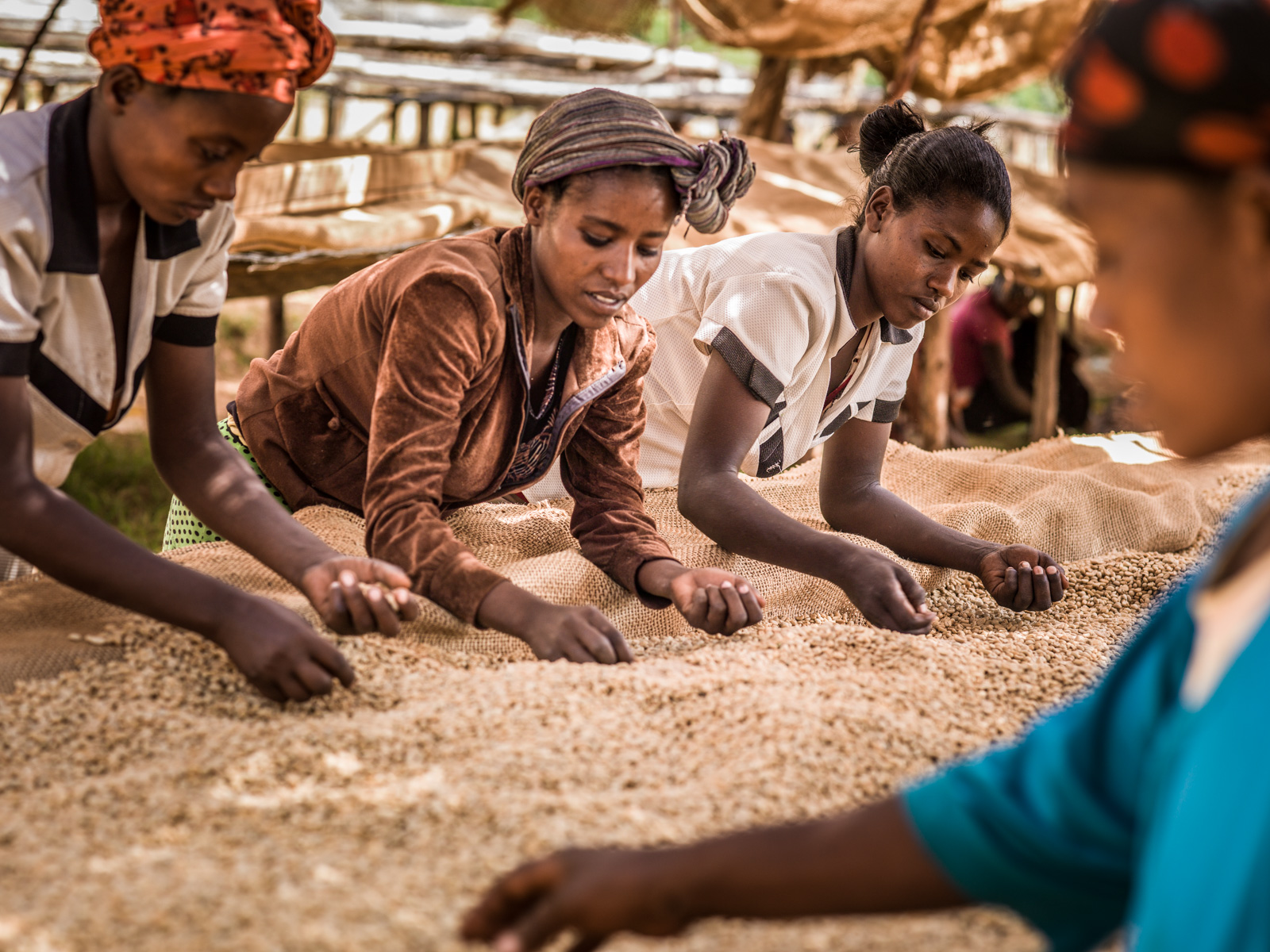 Four girls sorting coffee beans for size, Hawassa This is an image of "African people at work" from Ethiopia